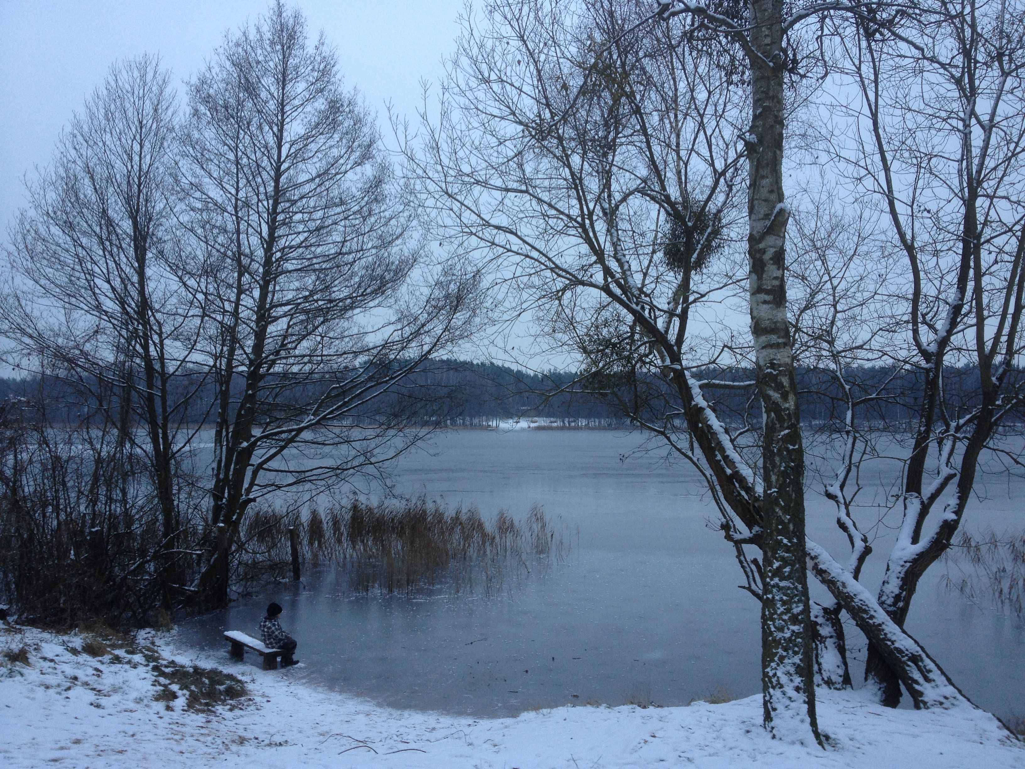 Großer Vätersee Badestelle im Winter